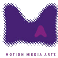 Motion Media Arts Logo